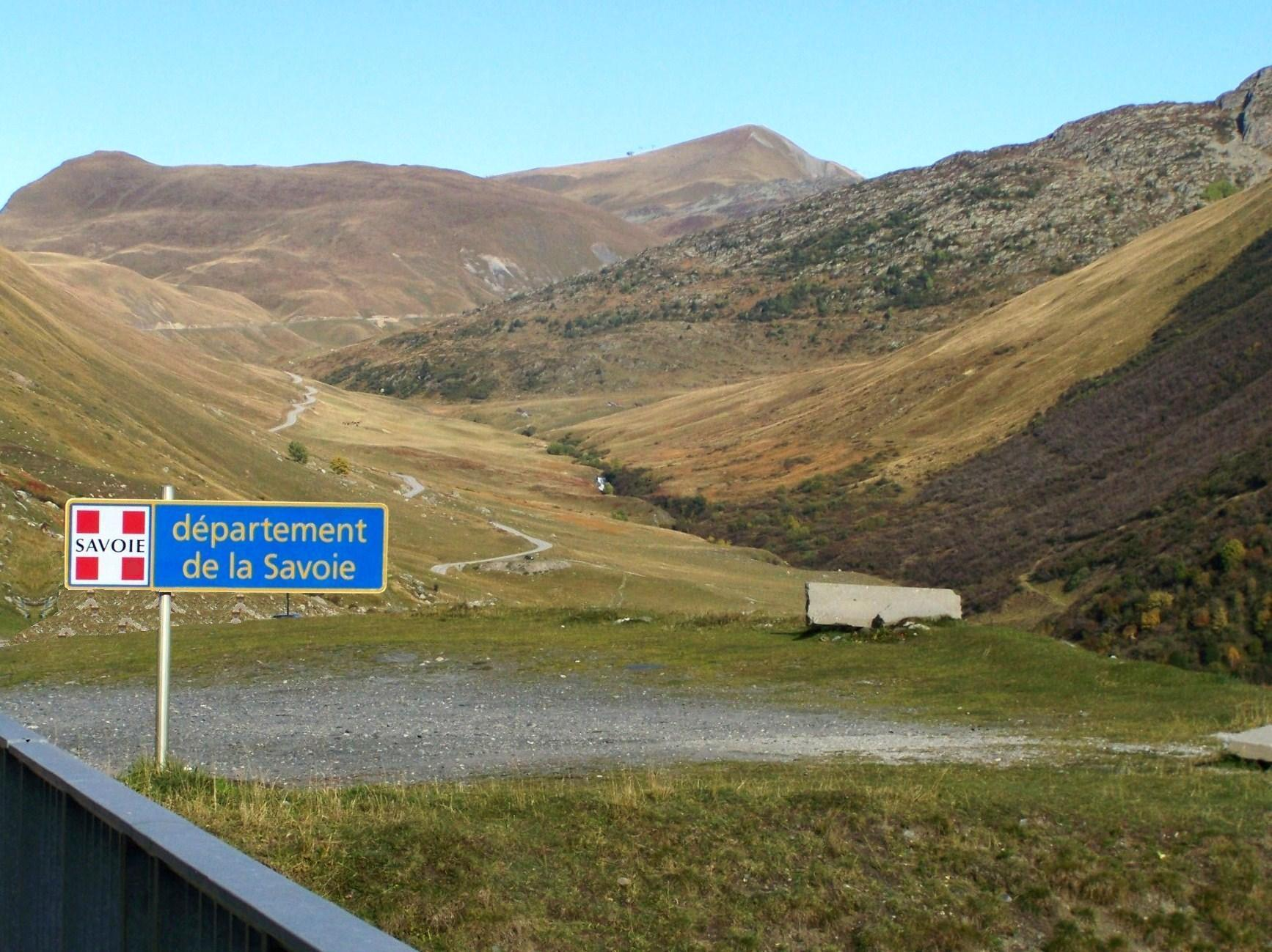 Sign welcoming visitors to the French department of Savoie, here situated near Glandon and Croix de Fer passes, at 1500 meters high.